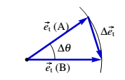 Variação do versor tangencial